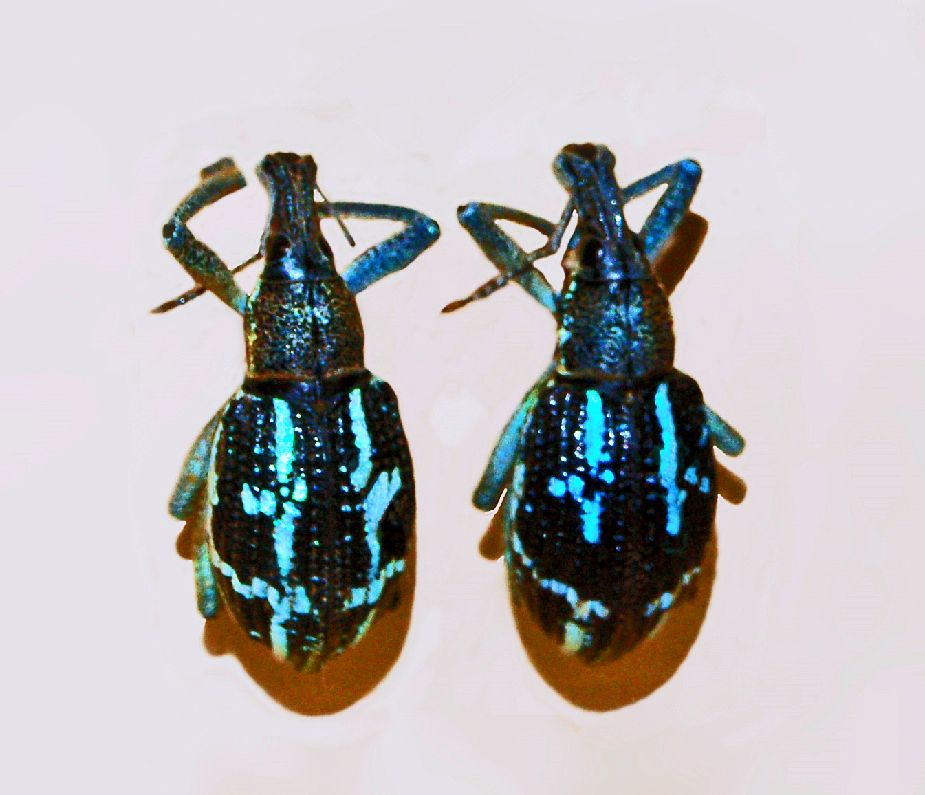 Rhinoscapha insignis from New Guinea